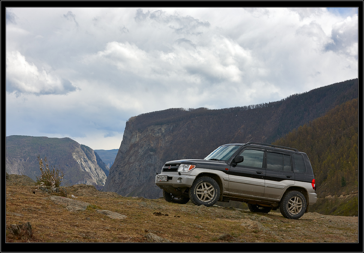 Mitsubishi Pajero Pinin